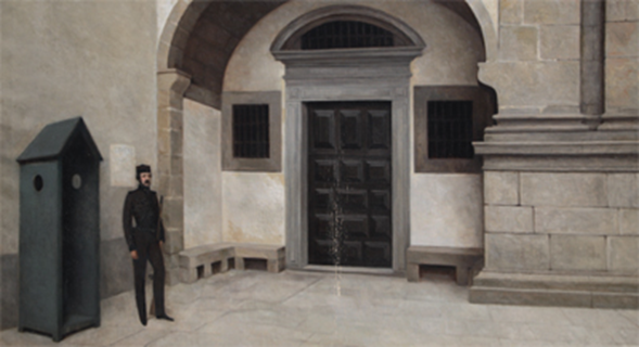 Almeida Garrett (1799-1854), celebrated Portuguese Romantic poet, playwright, novelist and politician, as volunteer of the Academic Battalion, standing sentinel over the Convento dos Grilos, during the Siege of Oporto (Portuguese Civil War).